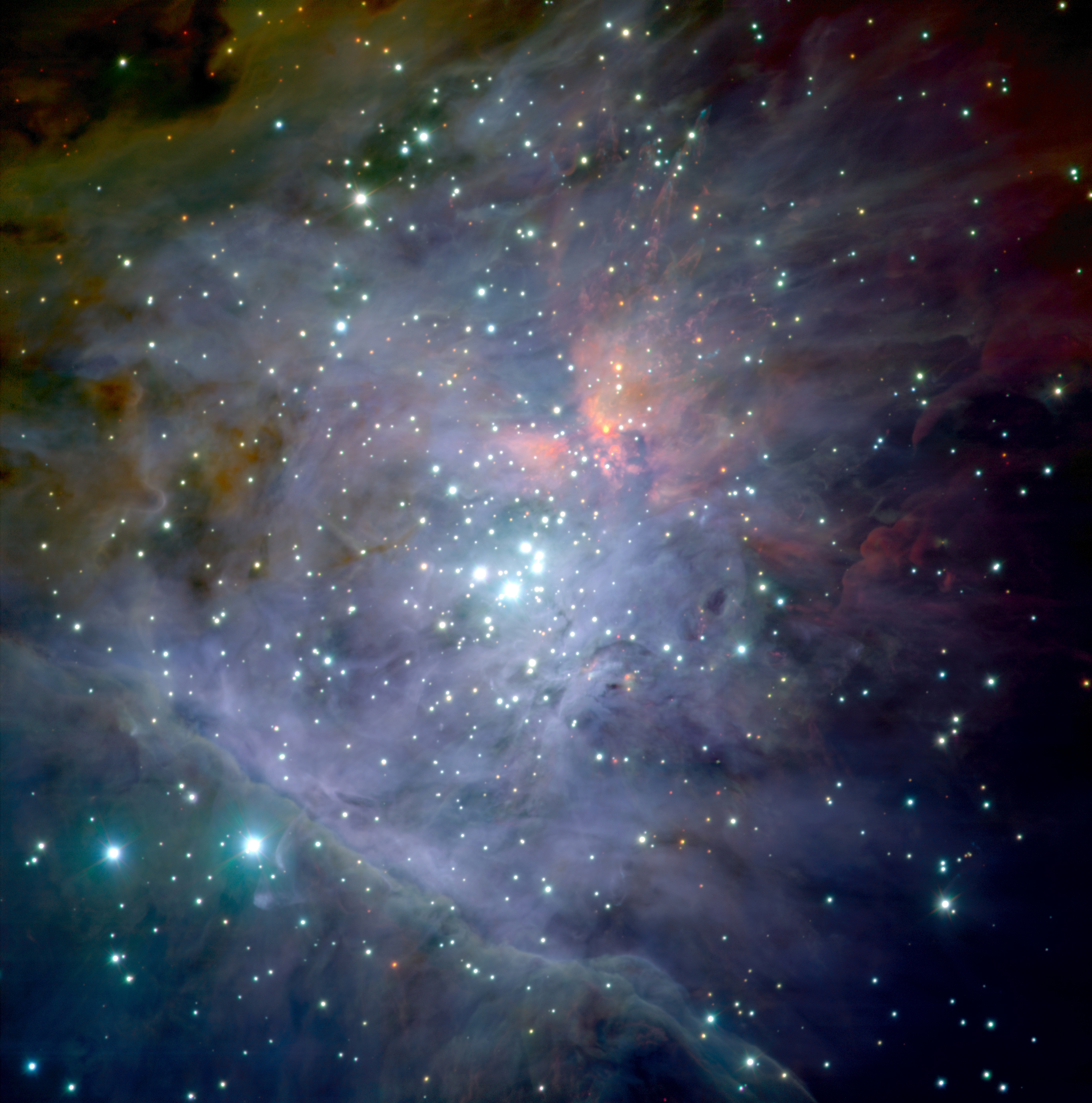 This photo shows a colour composite mosaic image of the central part of the Orion Nebula, based on 81 images obtained with the infrared multi-mode ISAAC instrument on the ESO Very Large Telescope (VLT) at the Paranal Observatory. The famous Trapezium stars are seen near the centre and the photo also shows the associated cluster of about 1,000 stars, approximately a million years old. Technical information about this photo is available below.